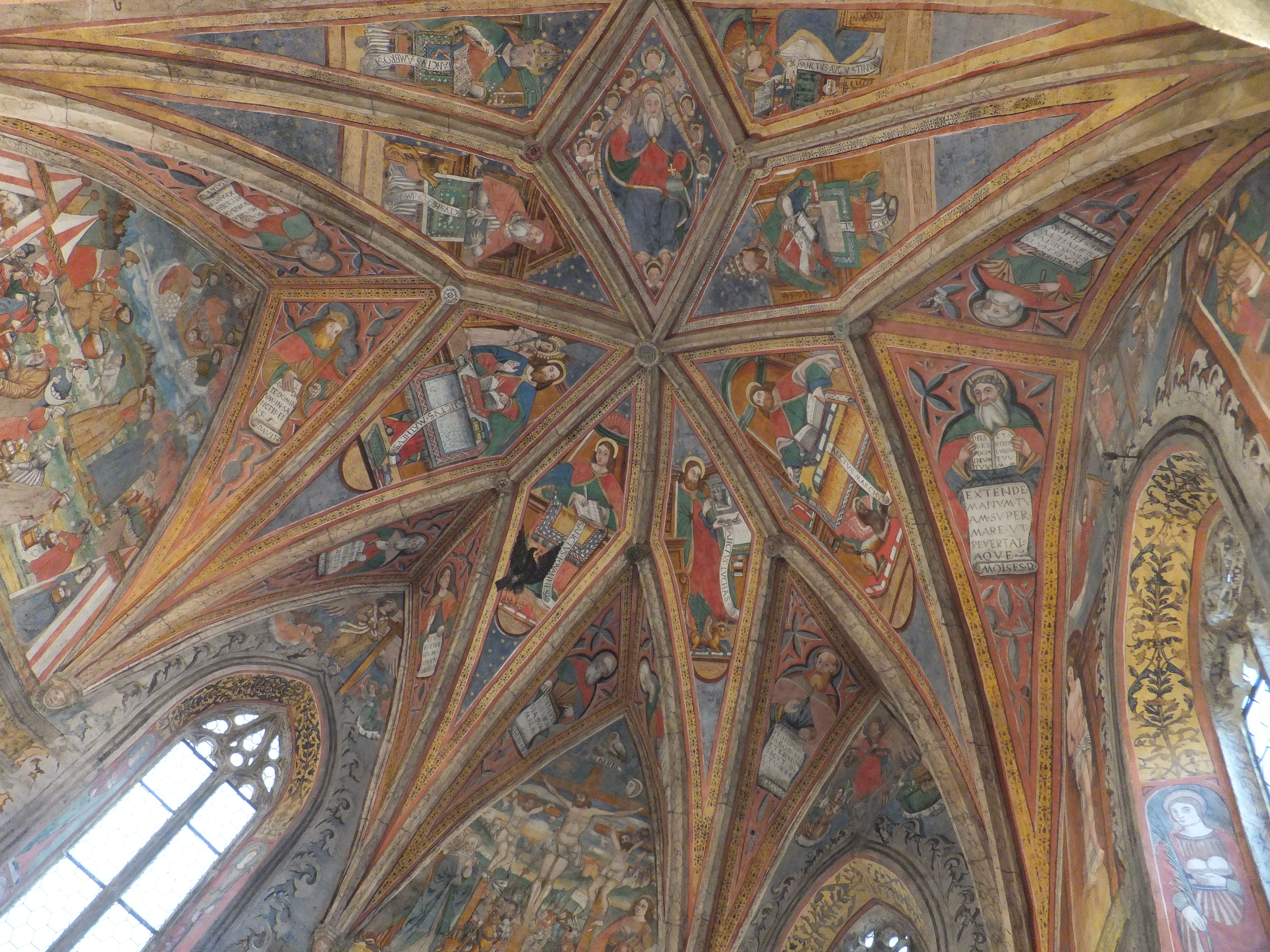 Cembra - Saint Peter church - Frescos of the vault above the altar